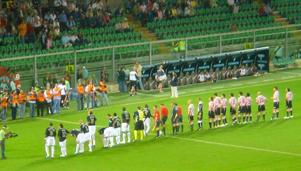 The players of Palermo and West Ham United line-up before their UEFA Cup game in Palermo, 2006